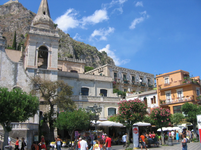 Author : Urban Description : Taormina, Piazza IX Aprile, Sicilia Body : Canon Powershot A80 Date : August, 2005